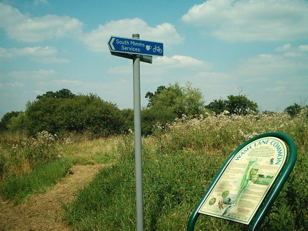 Direction sign to the services at South Mimms. Unusual as it shows a route into a motorway services for cyclists, which is not normally legally possible.